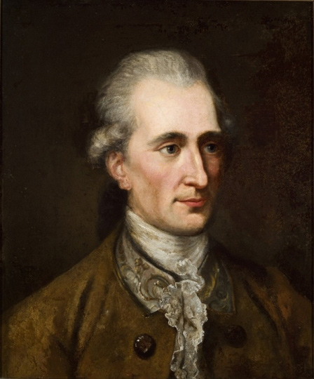 Portrait of Friedrich Heinrich Jacobi (1743-1819)